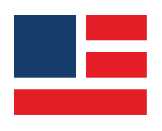 Flag logo of Scott Walker's 2016 presidential campaign